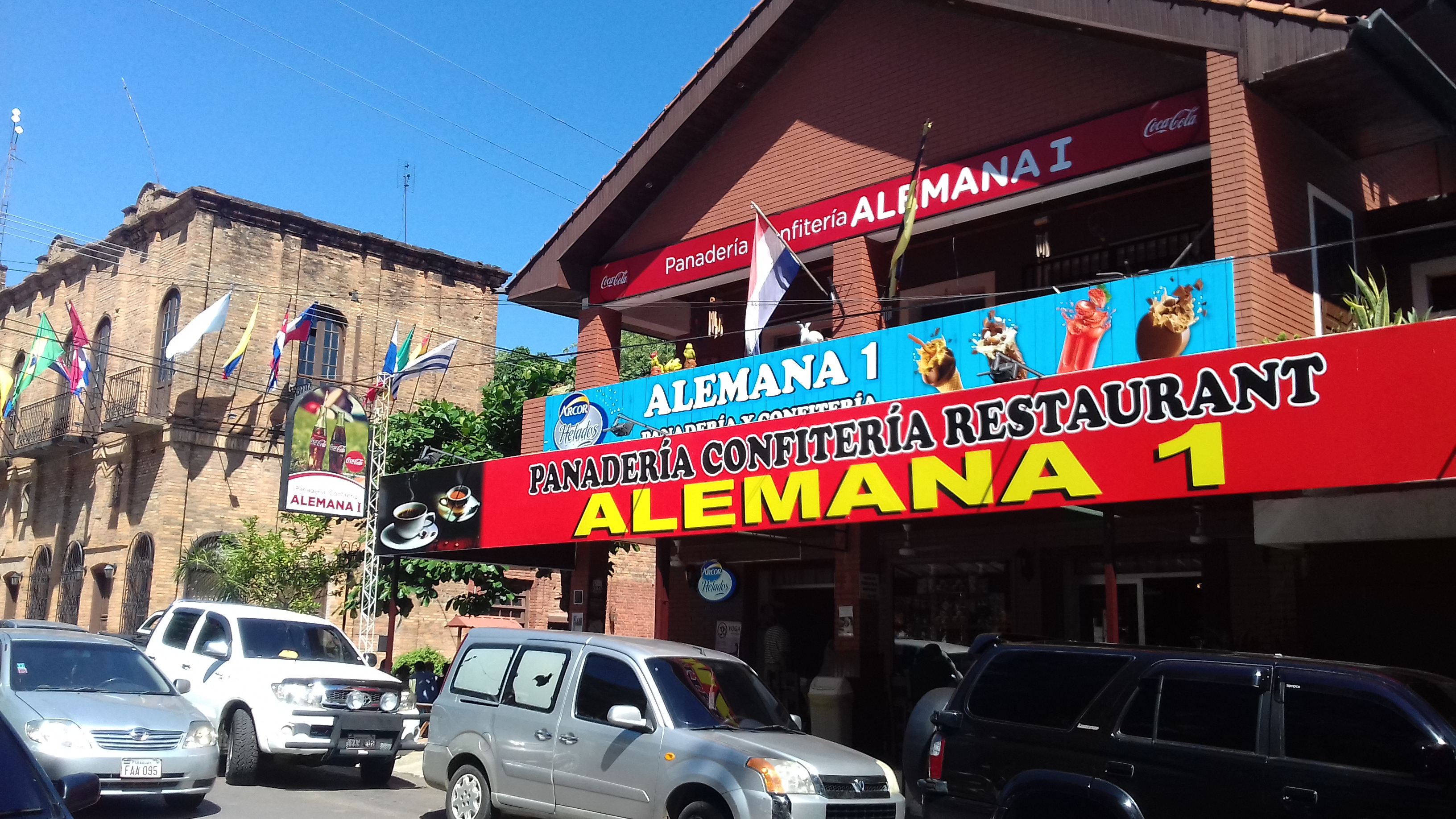 local de la Confitería Alemana en San Bernardino, Paraguay. Enero de 2018.